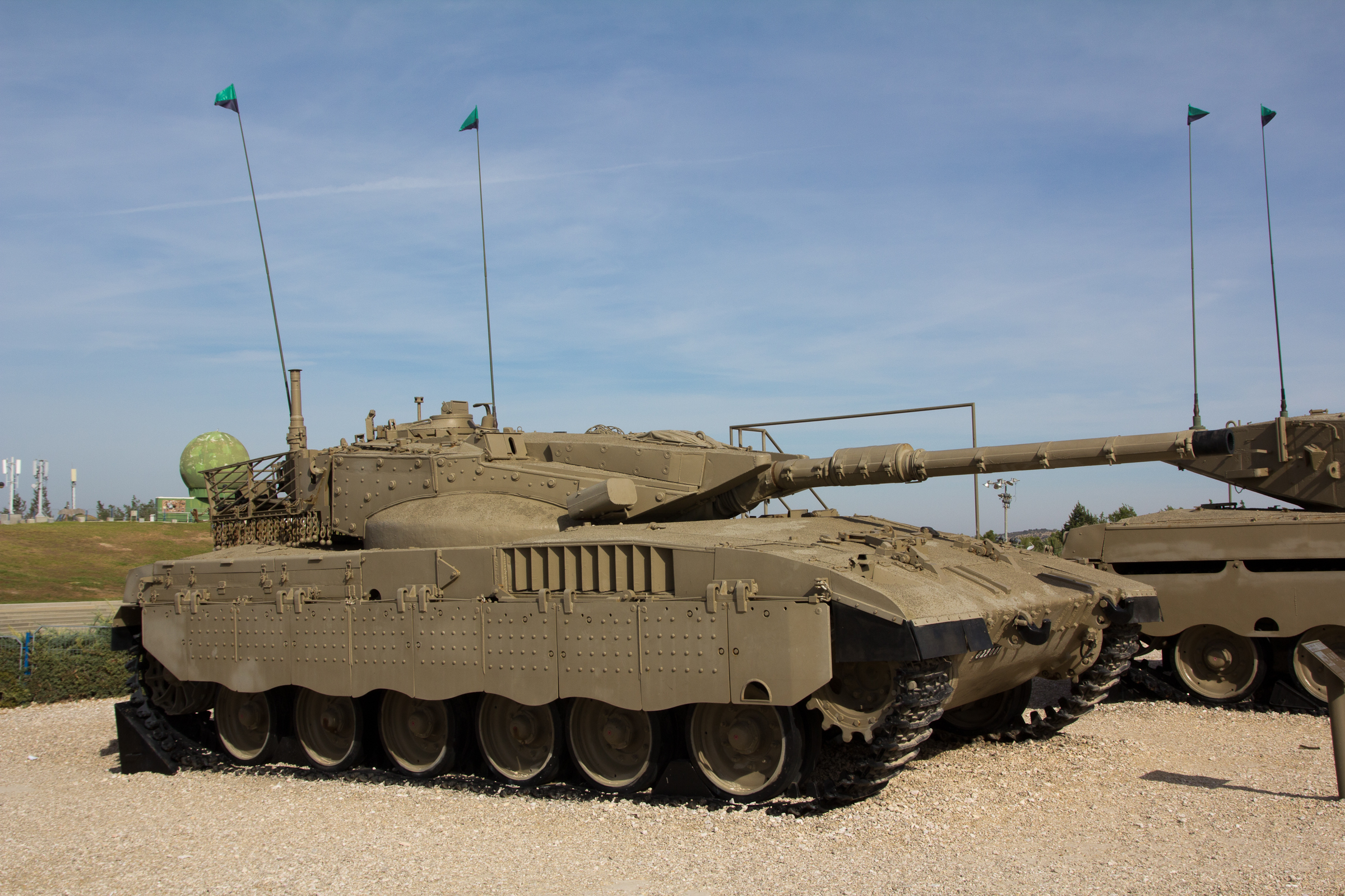 Israeli Merkava II at the Yad LaShiryon armor museum, Latrun, Israel